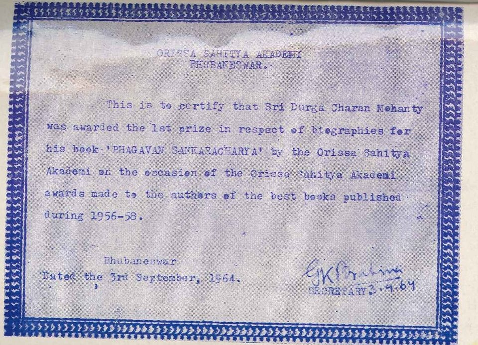 Durga Chraran Mohanty's Prize Certificate from ORISSA SAHITYA AKADEMI, BHUBANESWARA for his book "BHAGVAN SANKARA CHARYA (Oriya) in 1956-58